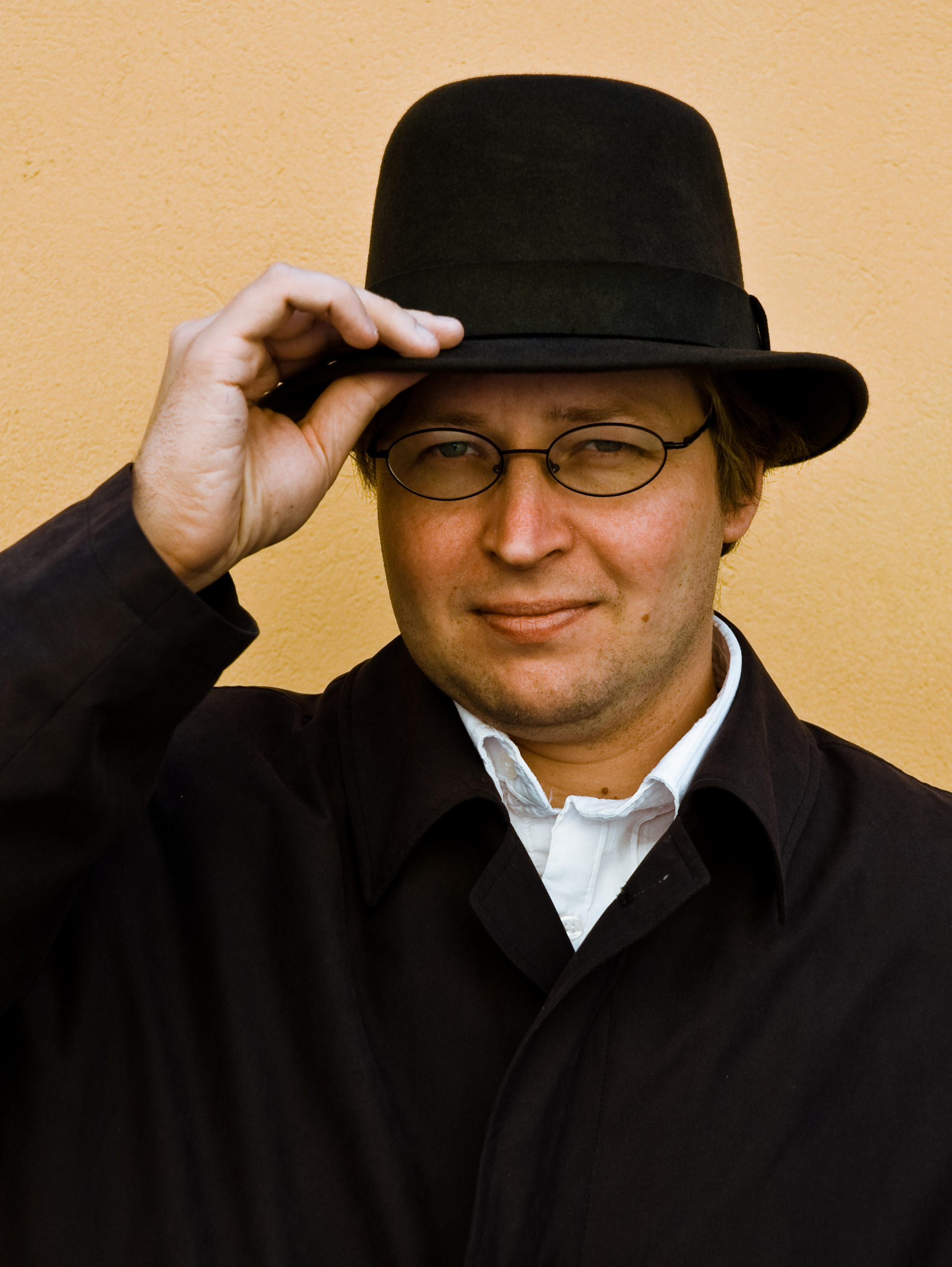 Dr. Sam Inkinen, Finnish author and media researcher